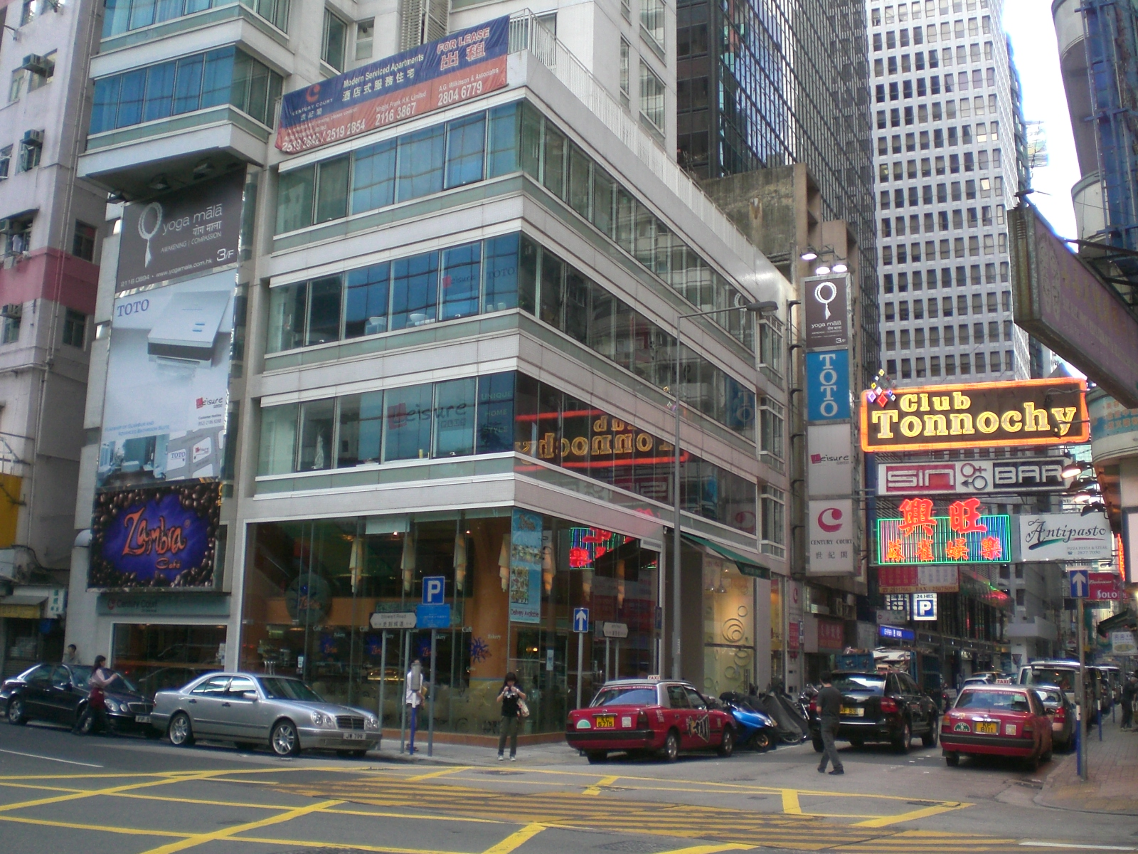 中文（香港）: 酒店式公寓 @ 謝斐道與史釗域道交界, Stewart Road & Jaffe Road, Wan Chai, Hong Kong.